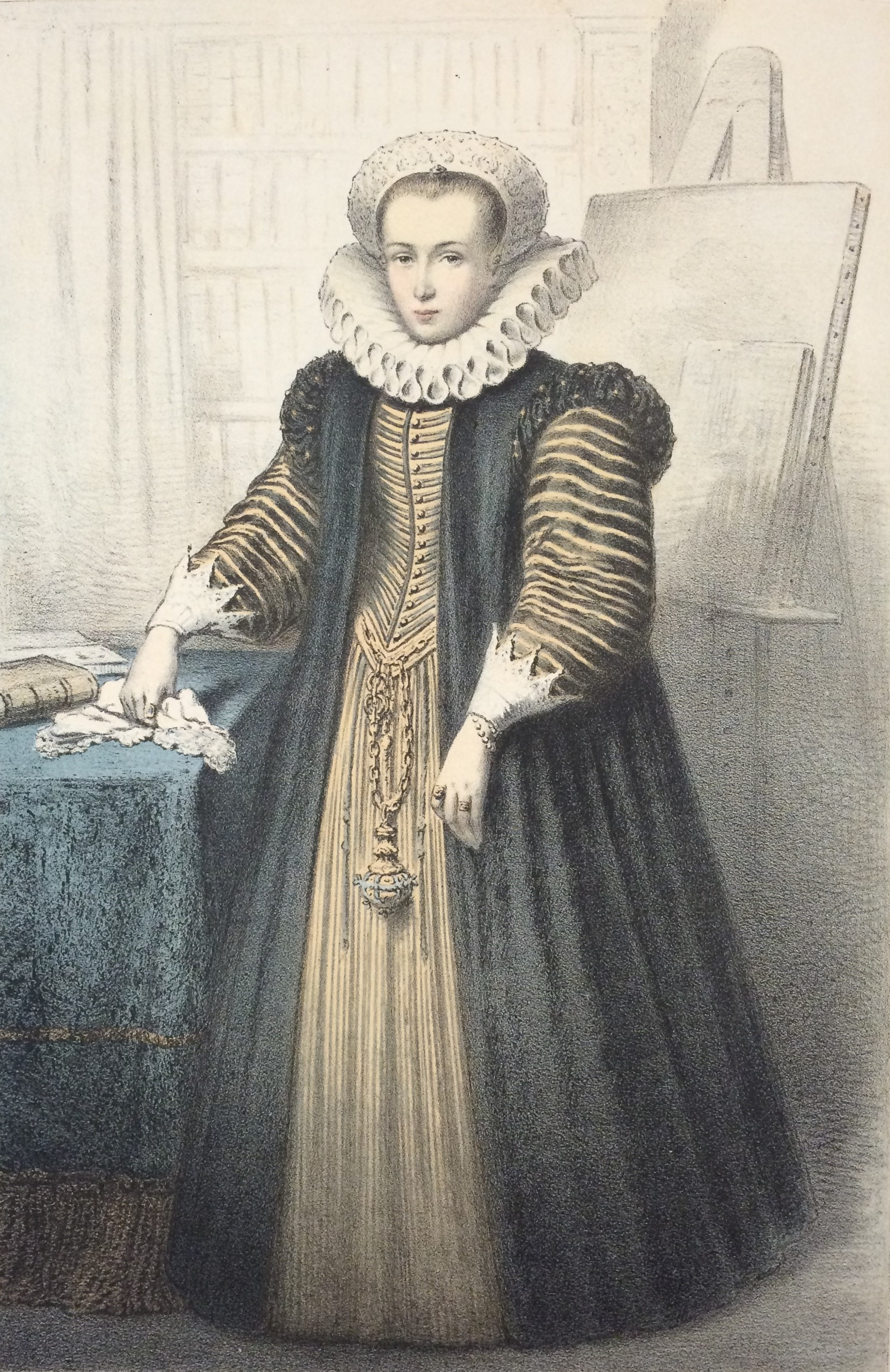 Portrait of Anna Maria van Schurman, a German-born Dutch painter, engraver, poet, and scholar.